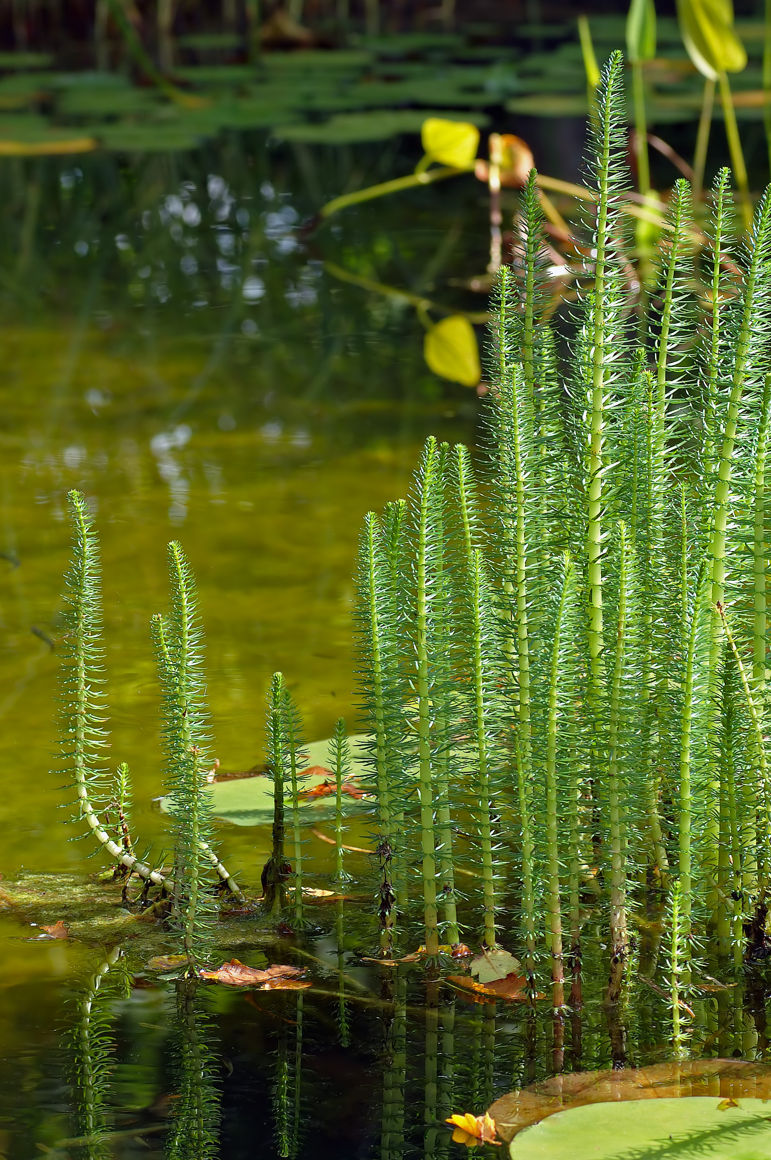 This image shows a Common Mare's-tail (Hippuris vulgaris).